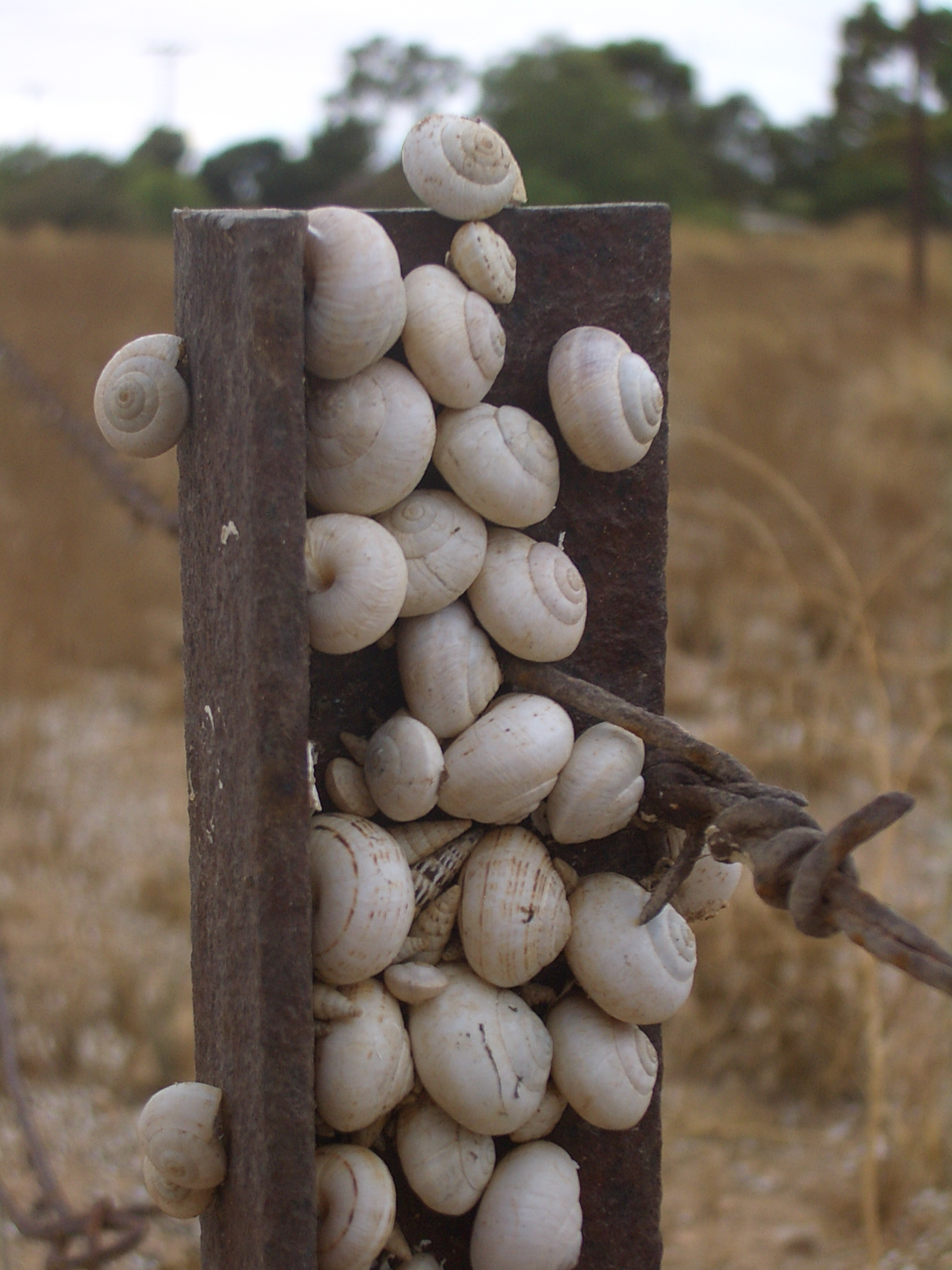 A group of introduced snails aestivating at the top of a fence post at Kadina, South Australia. (The image shows many individuals of the white garden snail Theba pisana, and several smaller individuals of the pointed snail, Cochlicella acuta.)